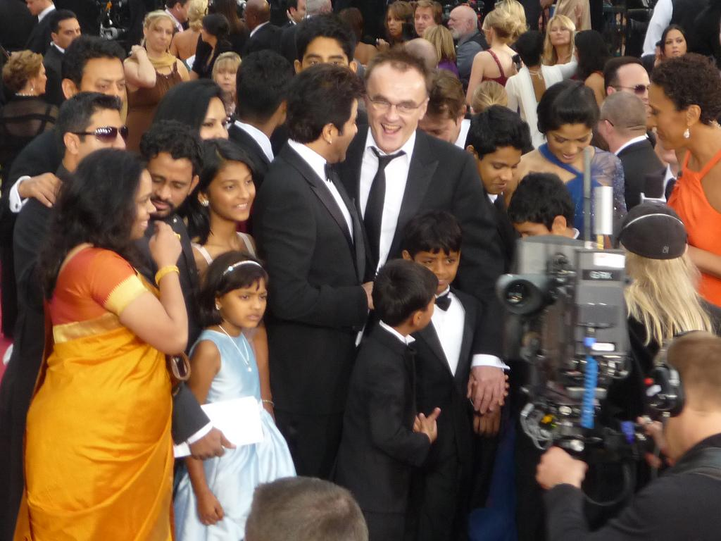 Cast and Director "Slumdog Millionaire" at 81st Annual Academy Awards.